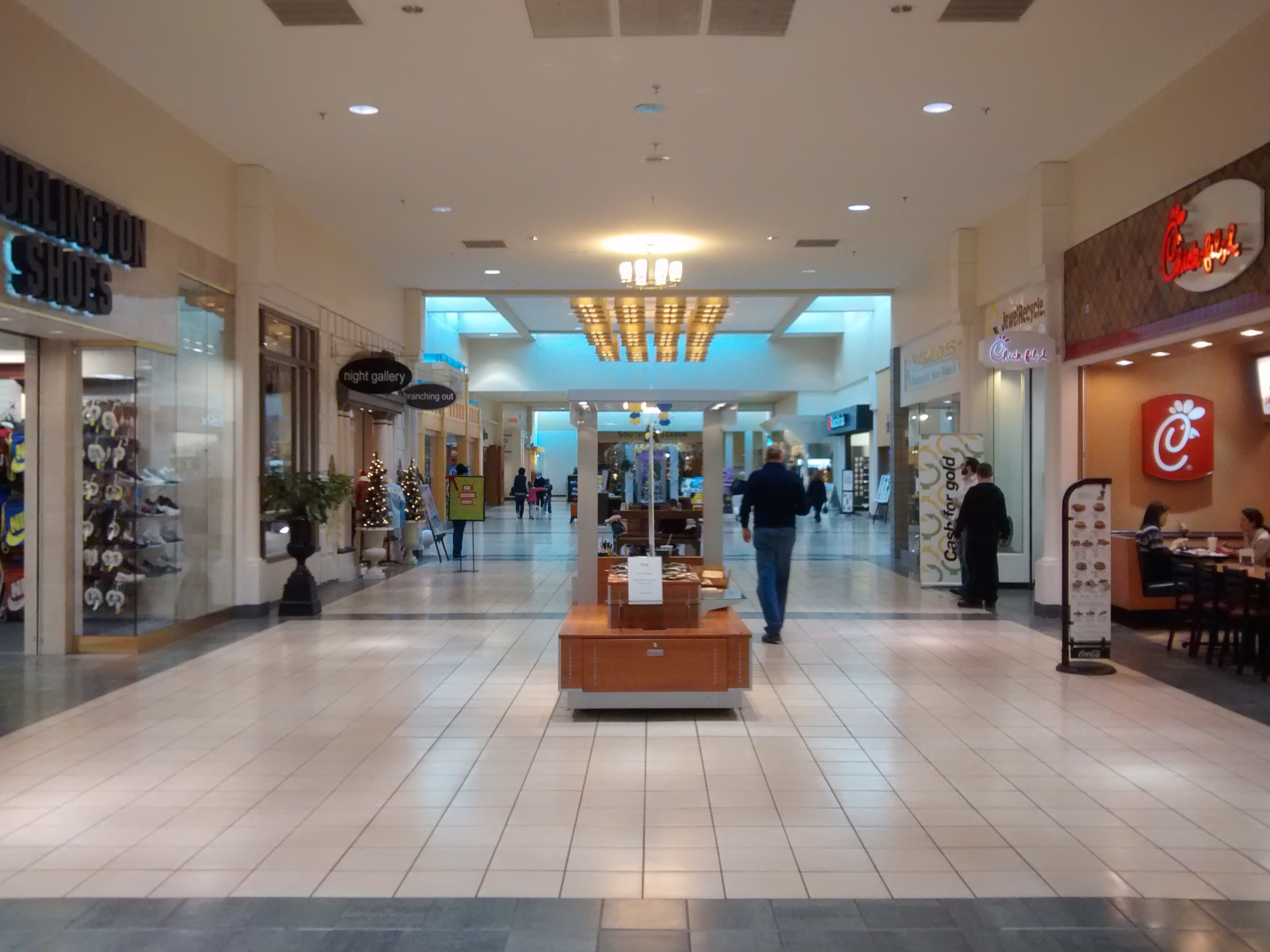 The interior of University Mall (Chapel Hill, North Carolina).